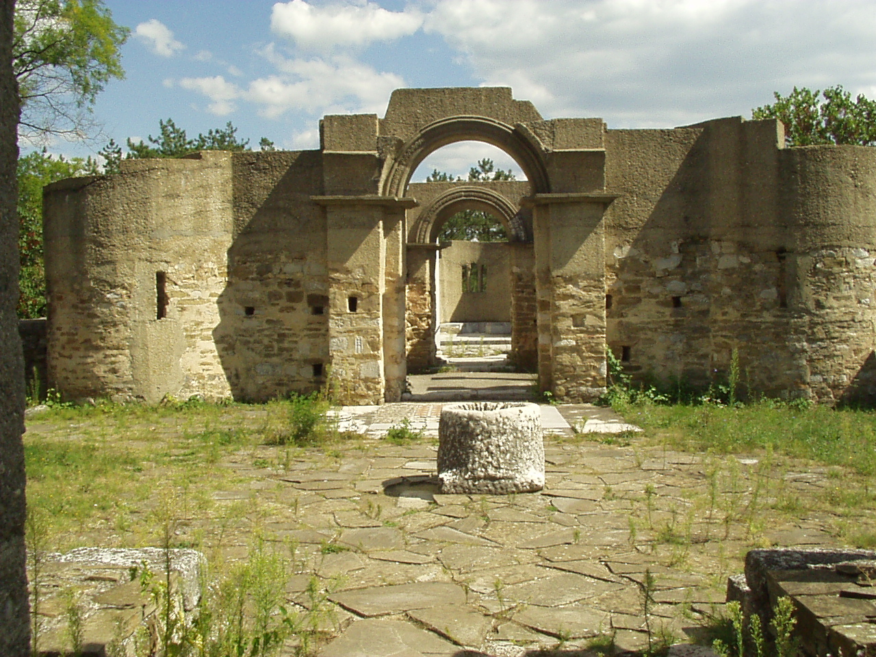 Вход към Кръгла /Златна/ църква на Велики Преслав. Entrance to the Round (Golden) Church of Veliki Preslav in northeast Bulgaria.